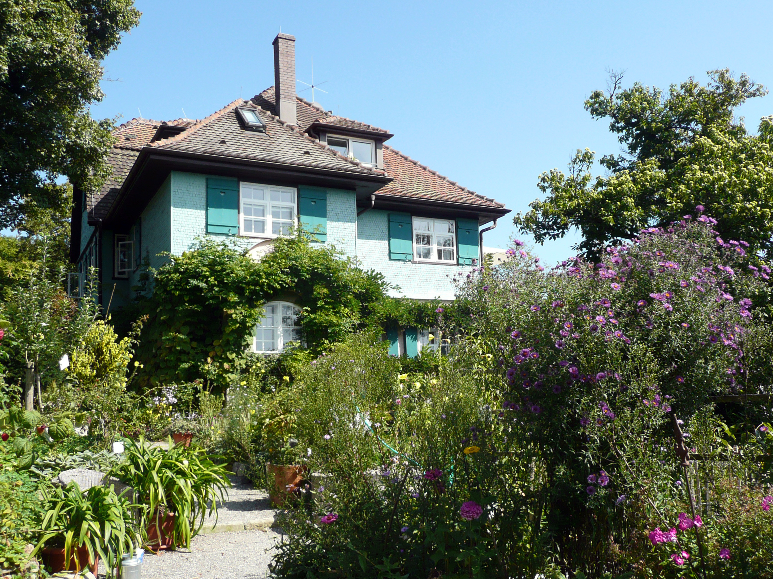 Villa of Hermann Hesse and his first wife Maria Bernoulli (Mia) in Gaienhofen on the Höri peninsula on Lake Constance where they lived with their three sons from 1907 to 1912 (seen from south). This private house can be visited after reservation.